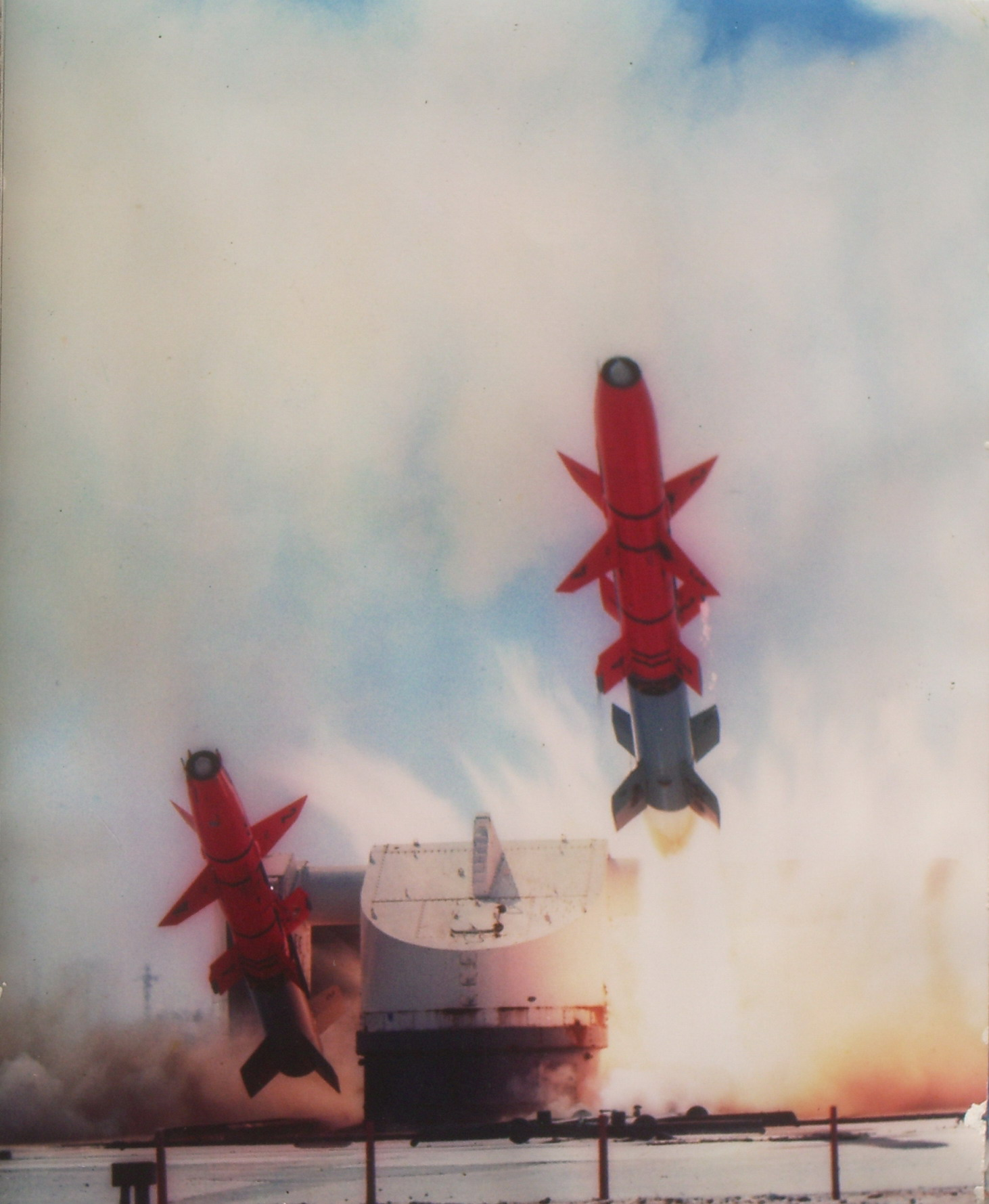 RIM-8 Talos surface to air missile built by Bendix Corporation Test Launch at White Sands Missile Range New Mexico.